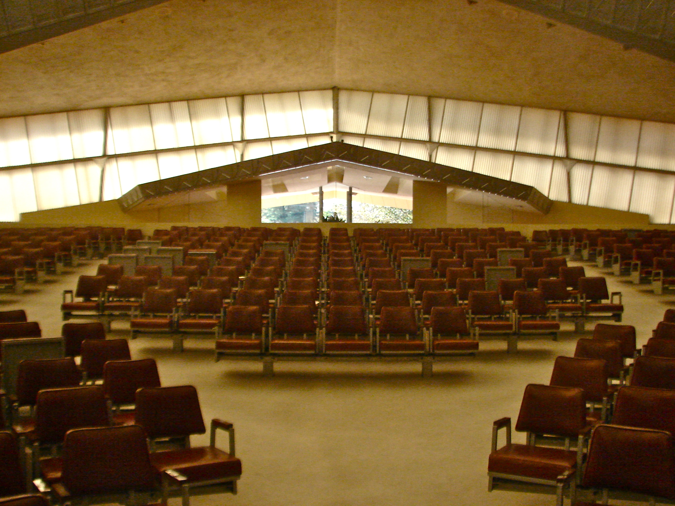 Beth Sholom Synagogue looking out from just below the alter toward the entrance (exit). Designed by FL Wright